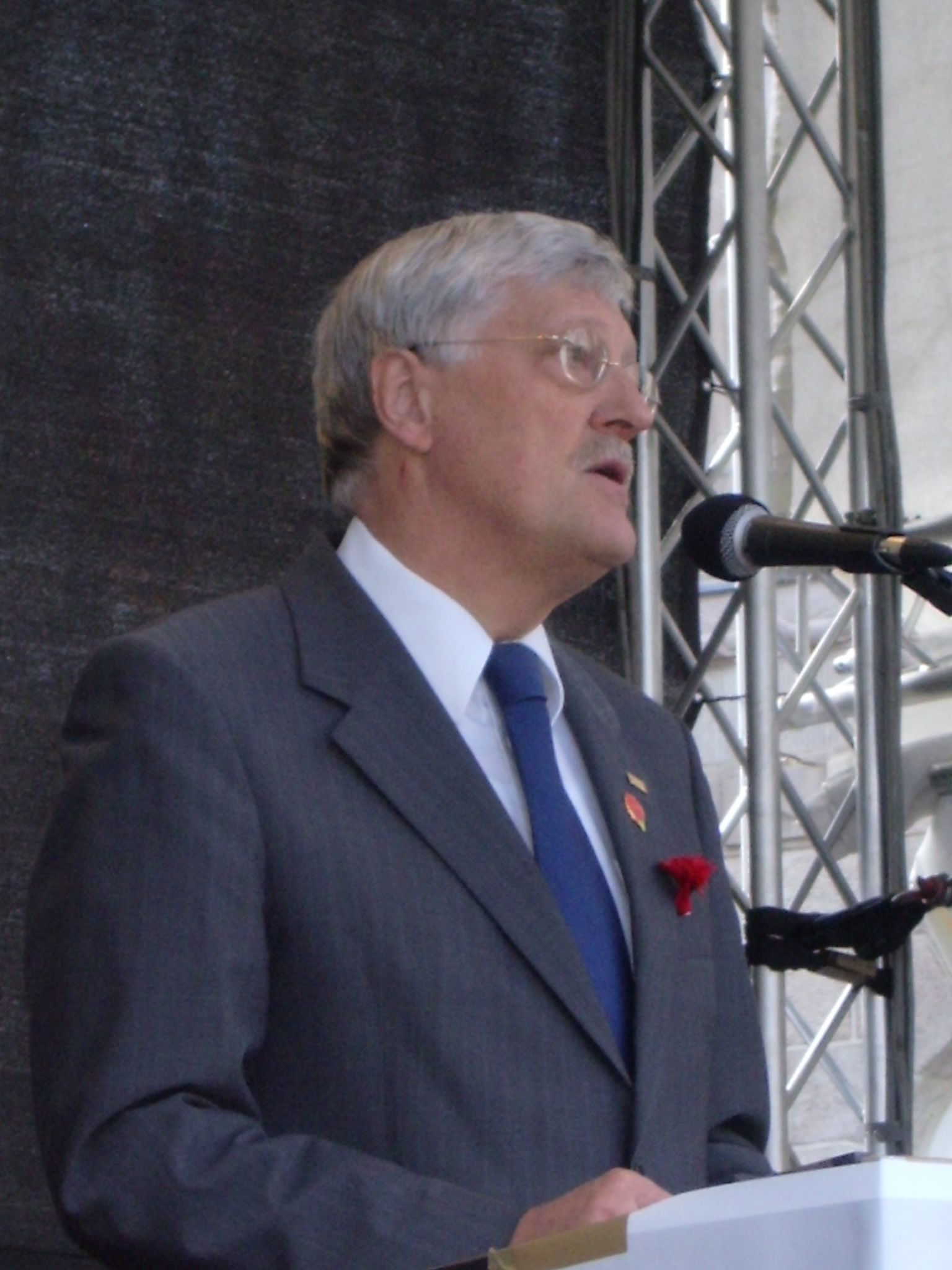 Heinz Paus, mayor of the city of Paderborn, greeting the 1st of May 2008